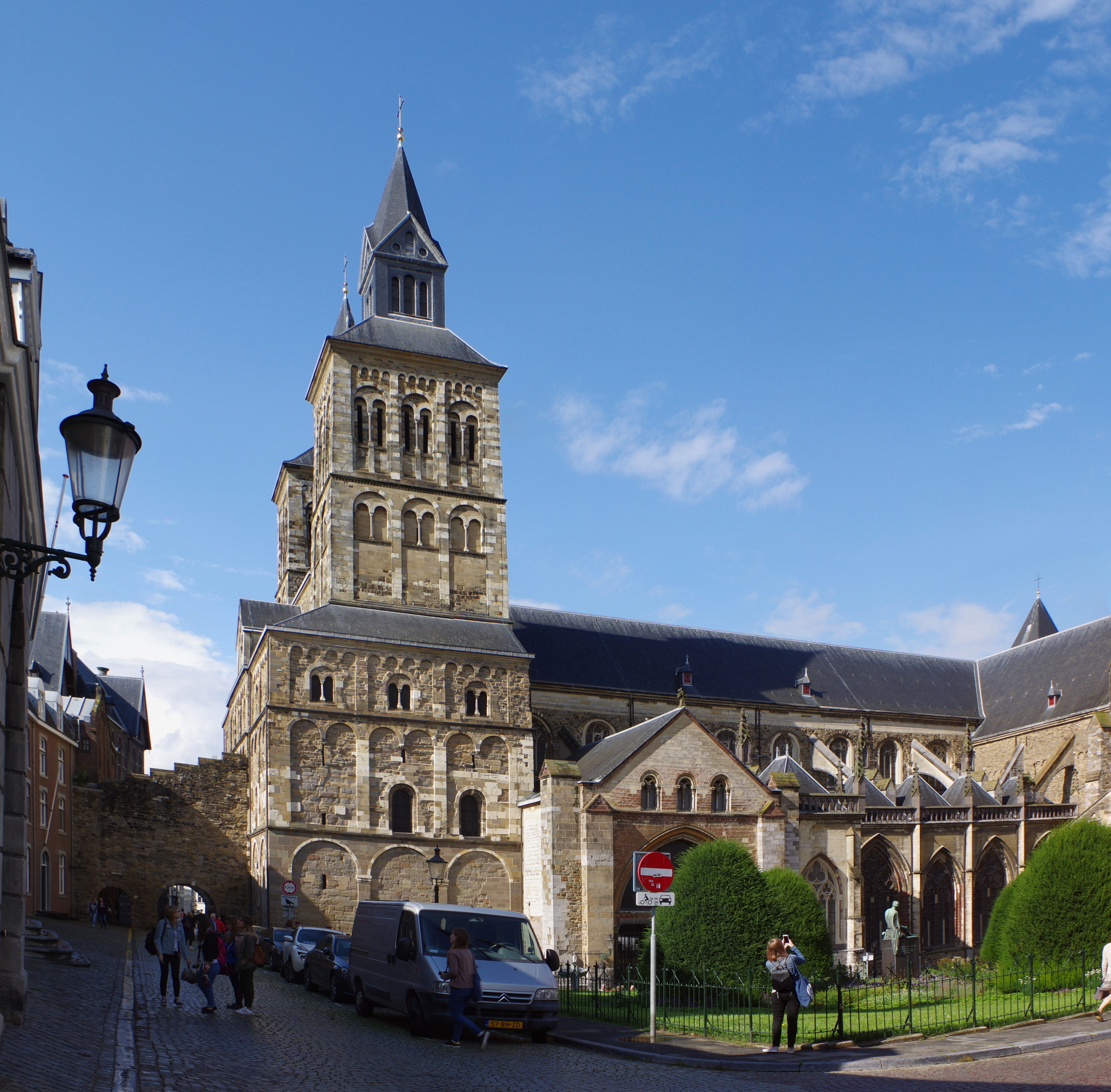 Sint-Servaasbasiliek (Maastricht), westwork an north portal